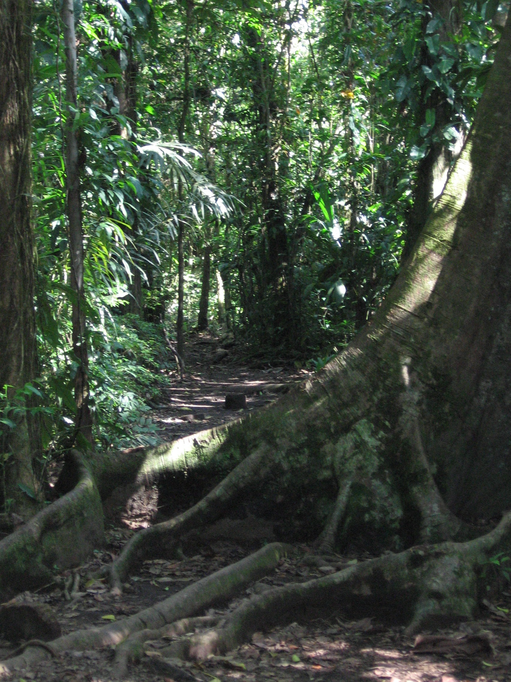 Photo taken by Kevin Olson in March 2006